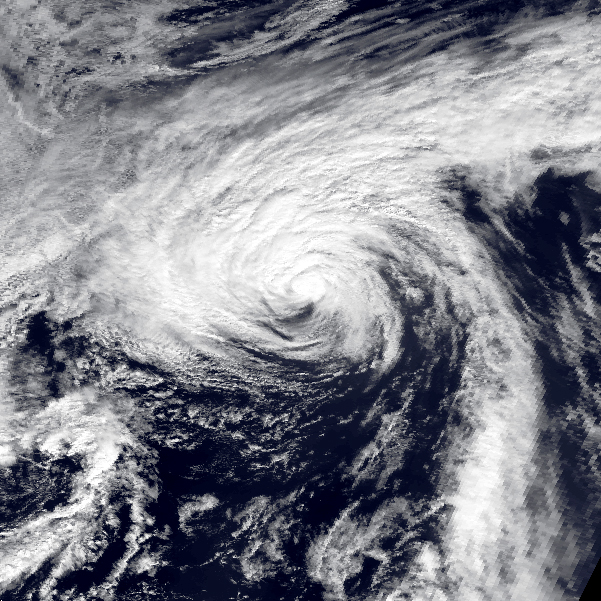 Hurricane Karl on September 24, 2004